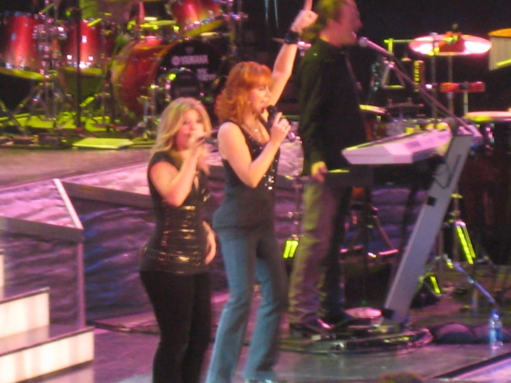 Reba McEntire performing with Kelly Clarkson in 2008.